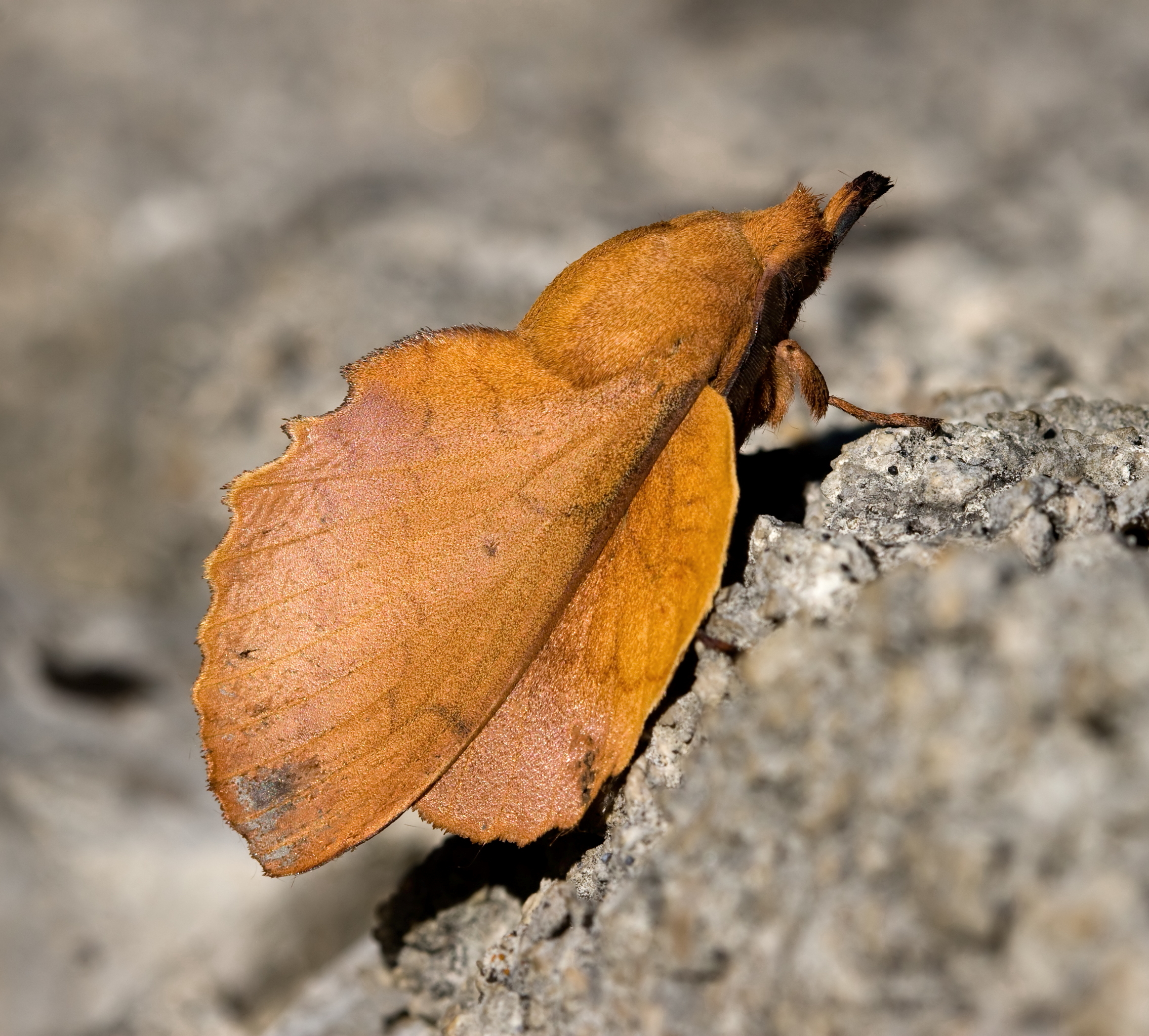 A Lappet (Gastropacha quercifolia) in Vlasici, Istria, Croatia.